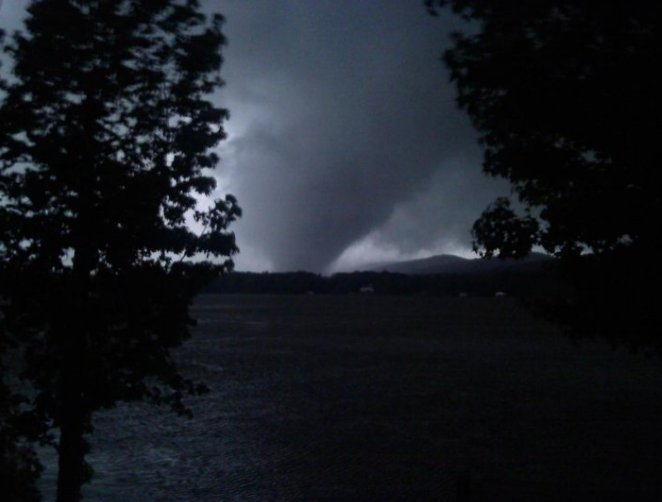 Shoal Creek Valley Alabama Tornado April 27, 2011. Photo taken from the Ohatchee side of Neely Henry Lake.